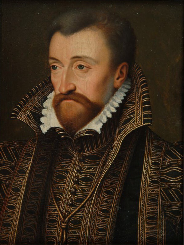 Antoine de Bourbon, father of Henri IV, king of France